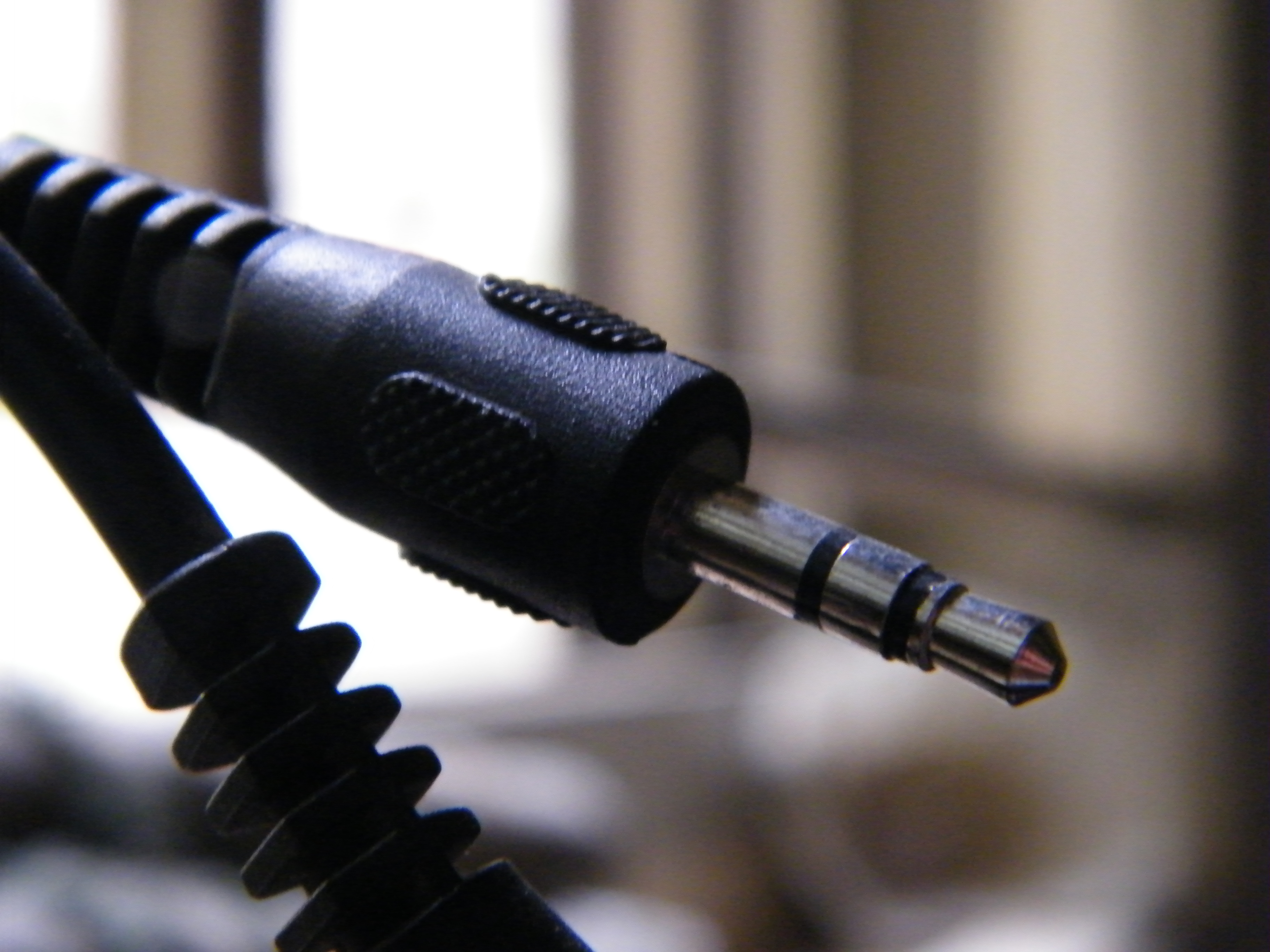 A 3.5mm stereo plug